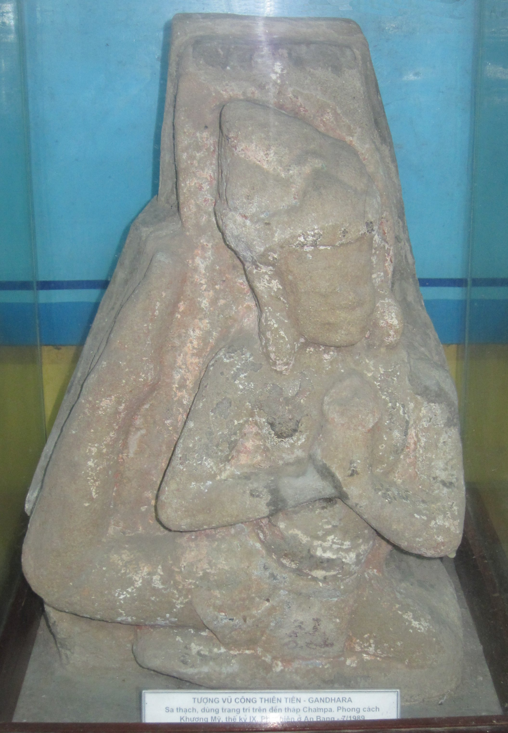 9th century sandstone statue of a dancer, Khuong My style, Gandhara, Hoi An Museum of History and Culture